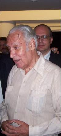 Methol Ferré y atrás uno de sus dicipulos el periodista Luis Vignolo